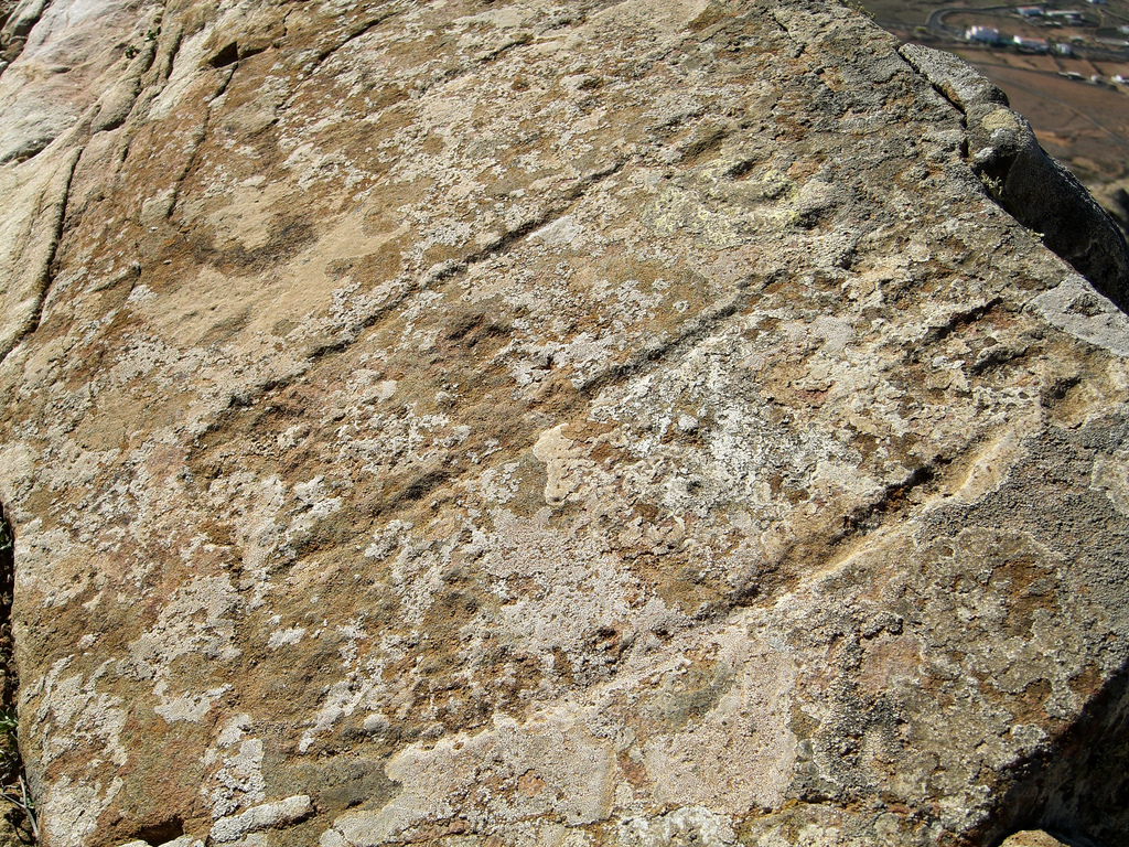 Foot engravings on Tindaya Mountain, Fuerteventura, Canary Islands.